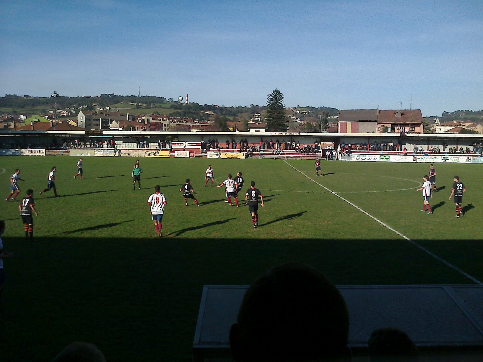 Estadio Santa Cruz in Gijón, during a game between UD Gijón Industrial and UC Ceares.